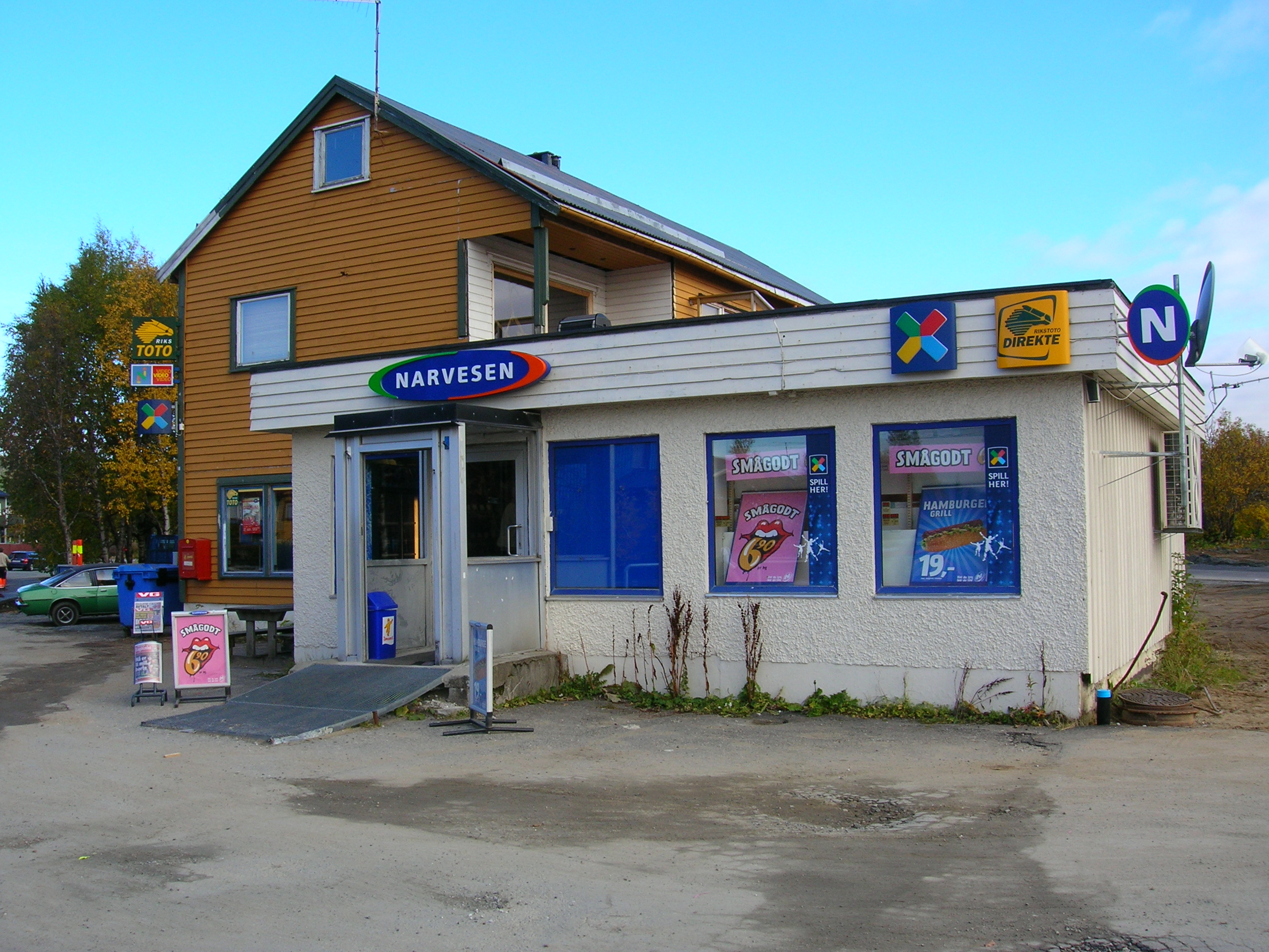 Narvesen kiosk on Gruben, Rana municipality, county of Nordland, Norway. Photo 28 September 2007 with a Nikon Coolpix 5600 5,1 Megapixel camera.